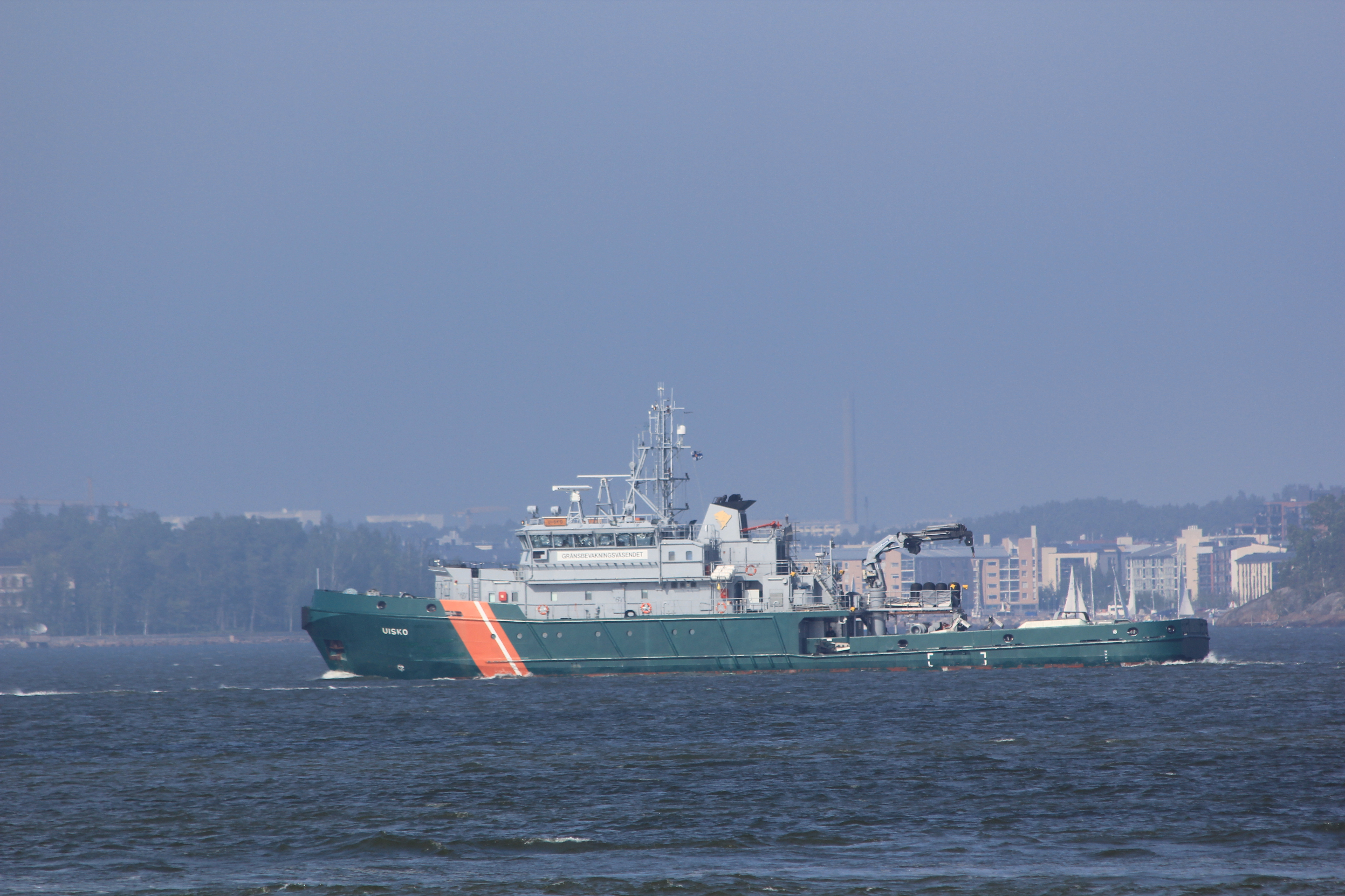 Finnish coast guard patrol craft Uisko in Kruunuvuorenselkä in Helsinki.